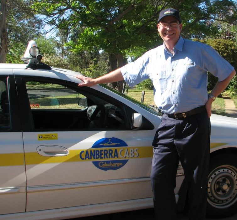 My first shift as a cabbie